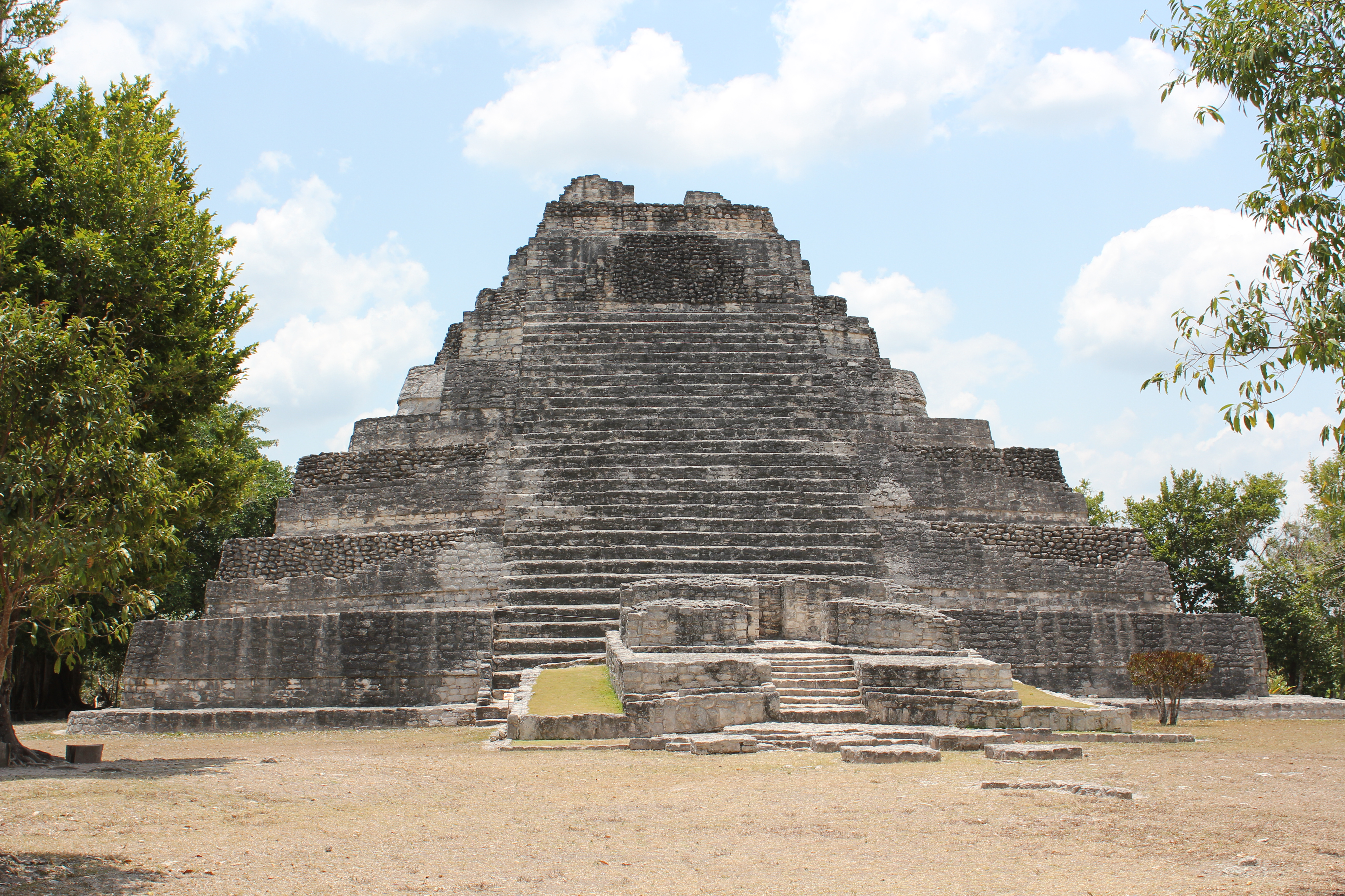 Temple Pyramid, Chacchoben, Mexico